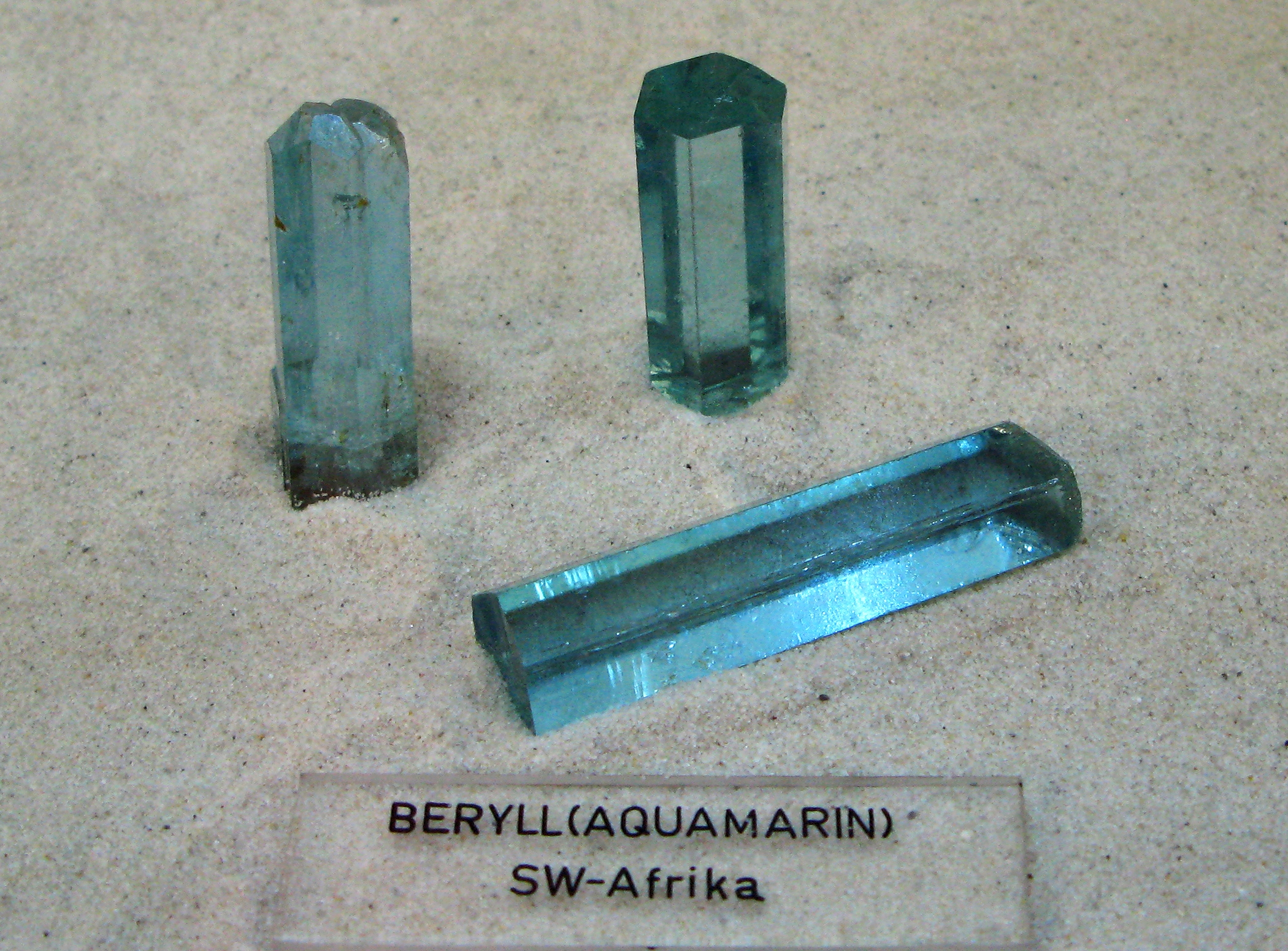 Beryl, variety Aquamarine - Locality: SW-Africa - Exposed in the Mineralogical Museum, Bonn, Germany